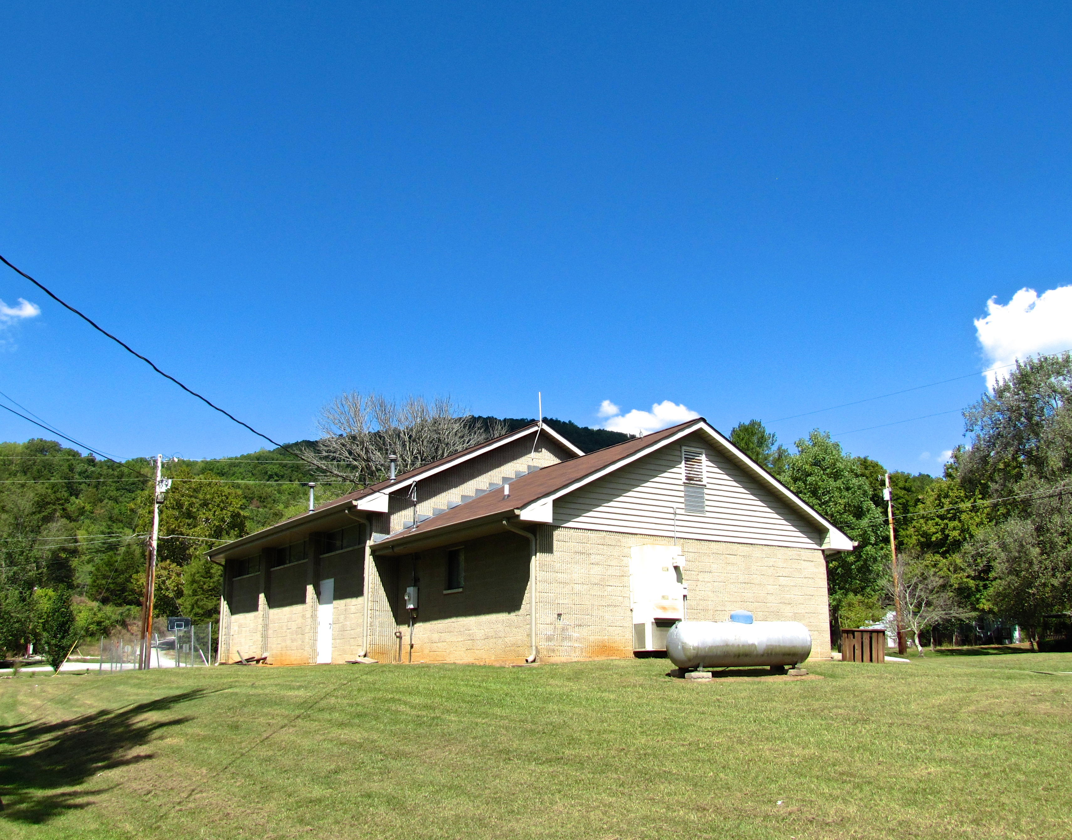 The Orme Community building and Fire Department in Orme, Tennessee, United States.